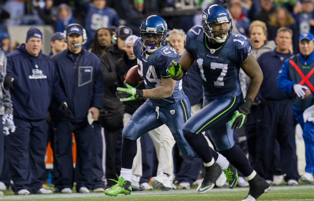 Marshawn Lynch runs with the ball next to Mike Williams.